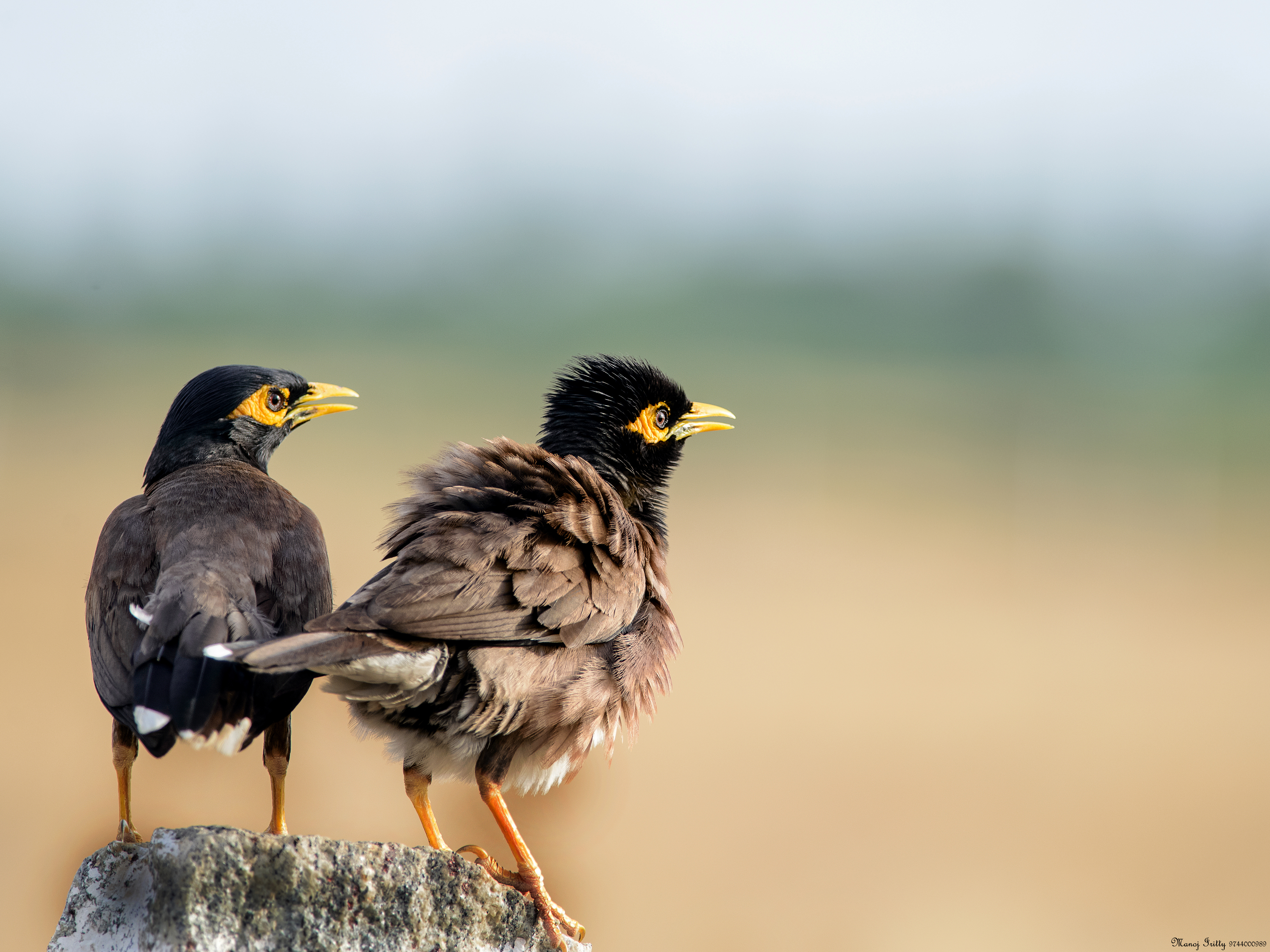 The common myna, sometimes spelled mynah, also sometimes known as "Indian myna", is a member of the family Sturnidae native to Asia